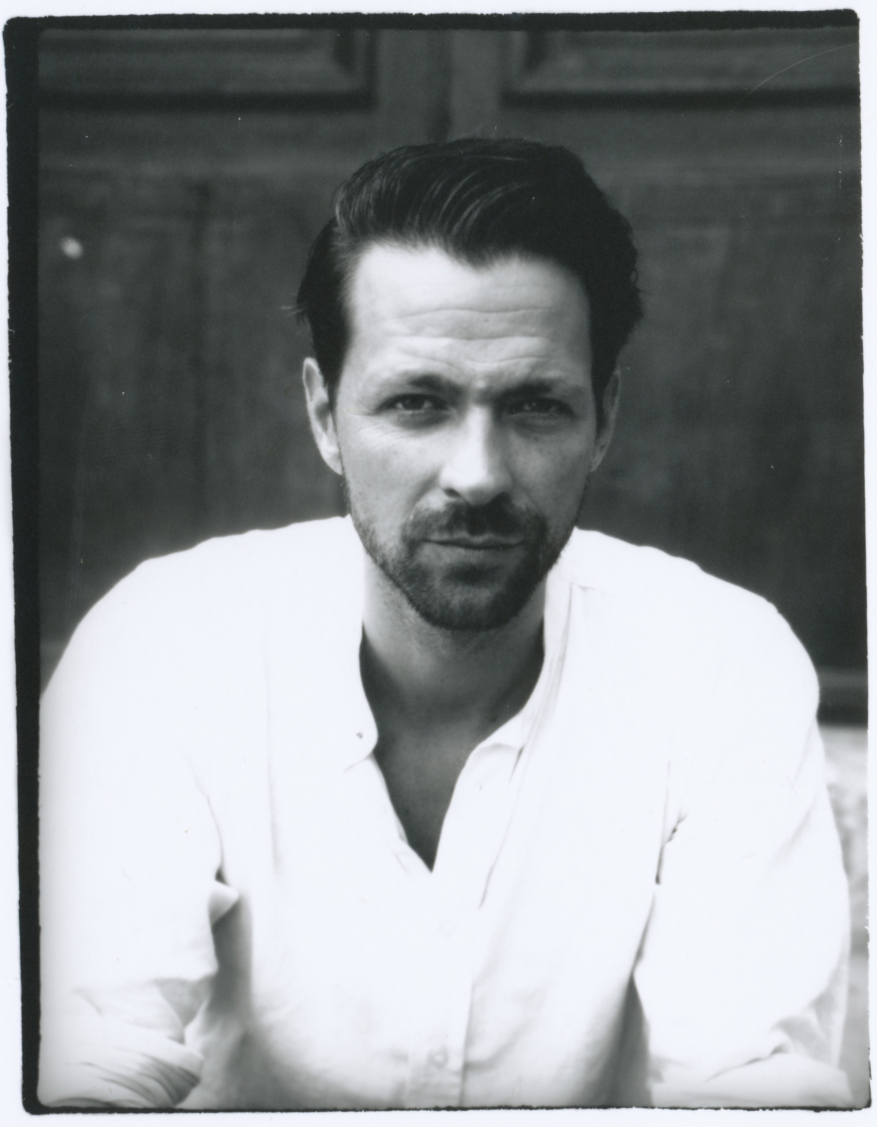 Box Camera Photograph. Street Photograph. Lukas Birk. Author.